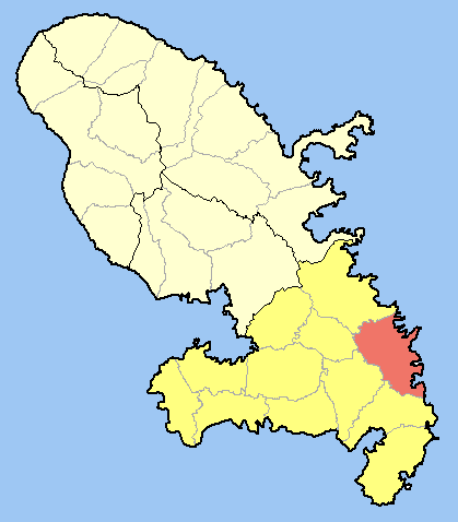 Location of Le Vauclin within Martinique